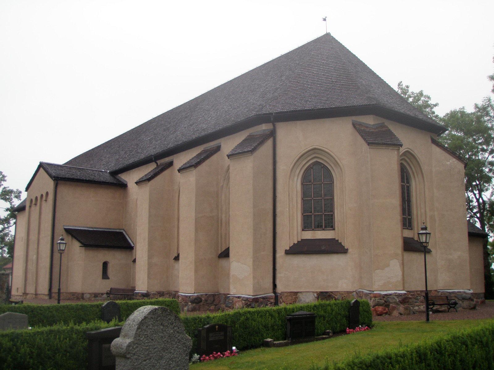 Askeby church, Diocese of Linköping, Linköpings kommun.